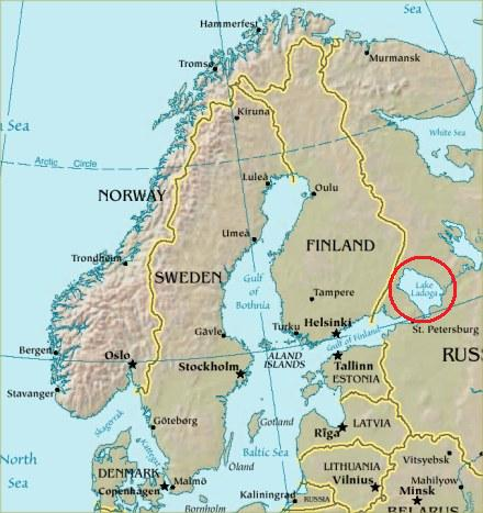 Scandinavia with lake Ladoga marked.